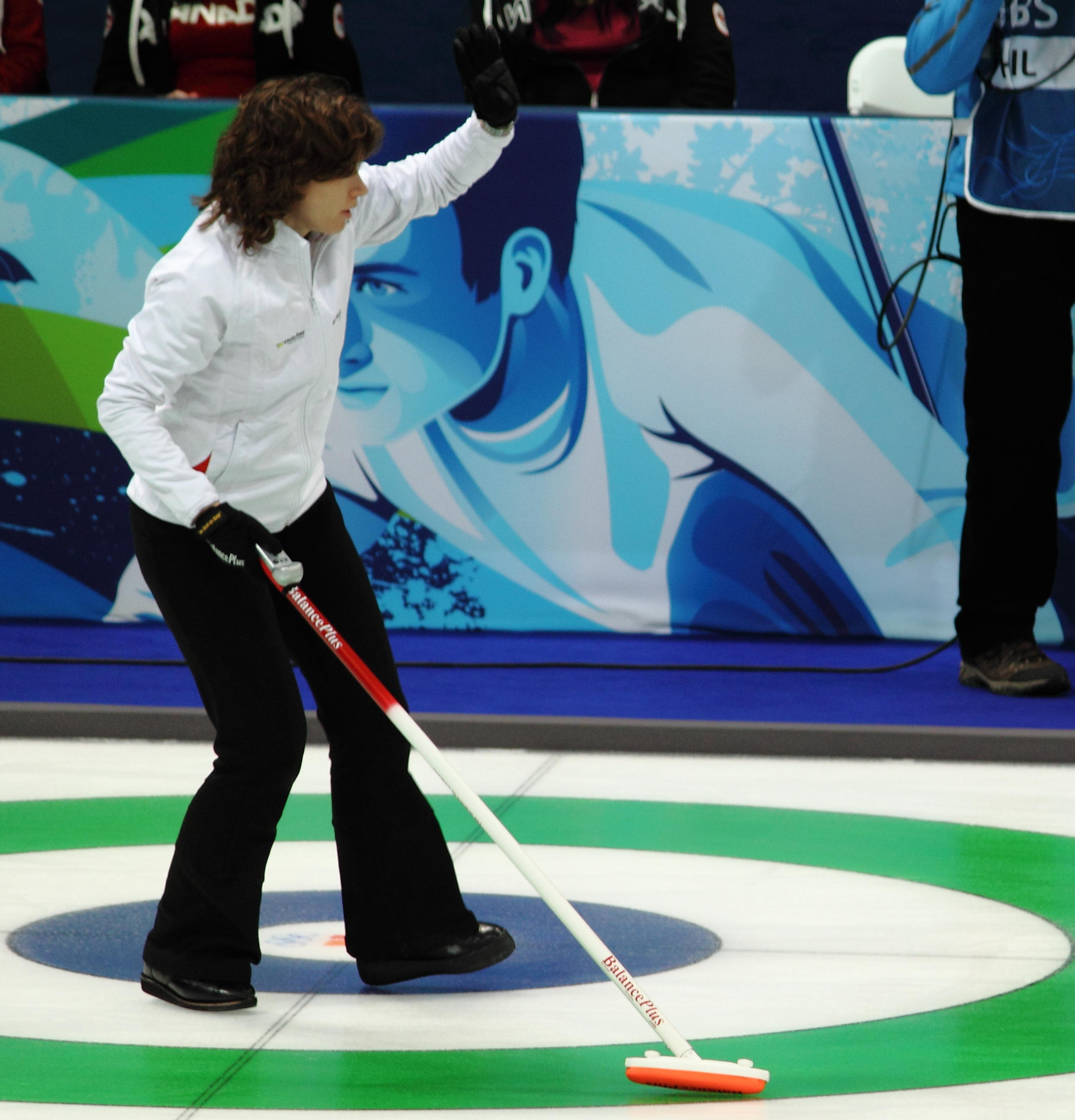 Mirjam Ott; 2010 Vancouver Olympic Games - Women's Curling - Preliminary from Vancouver Olympic Centre